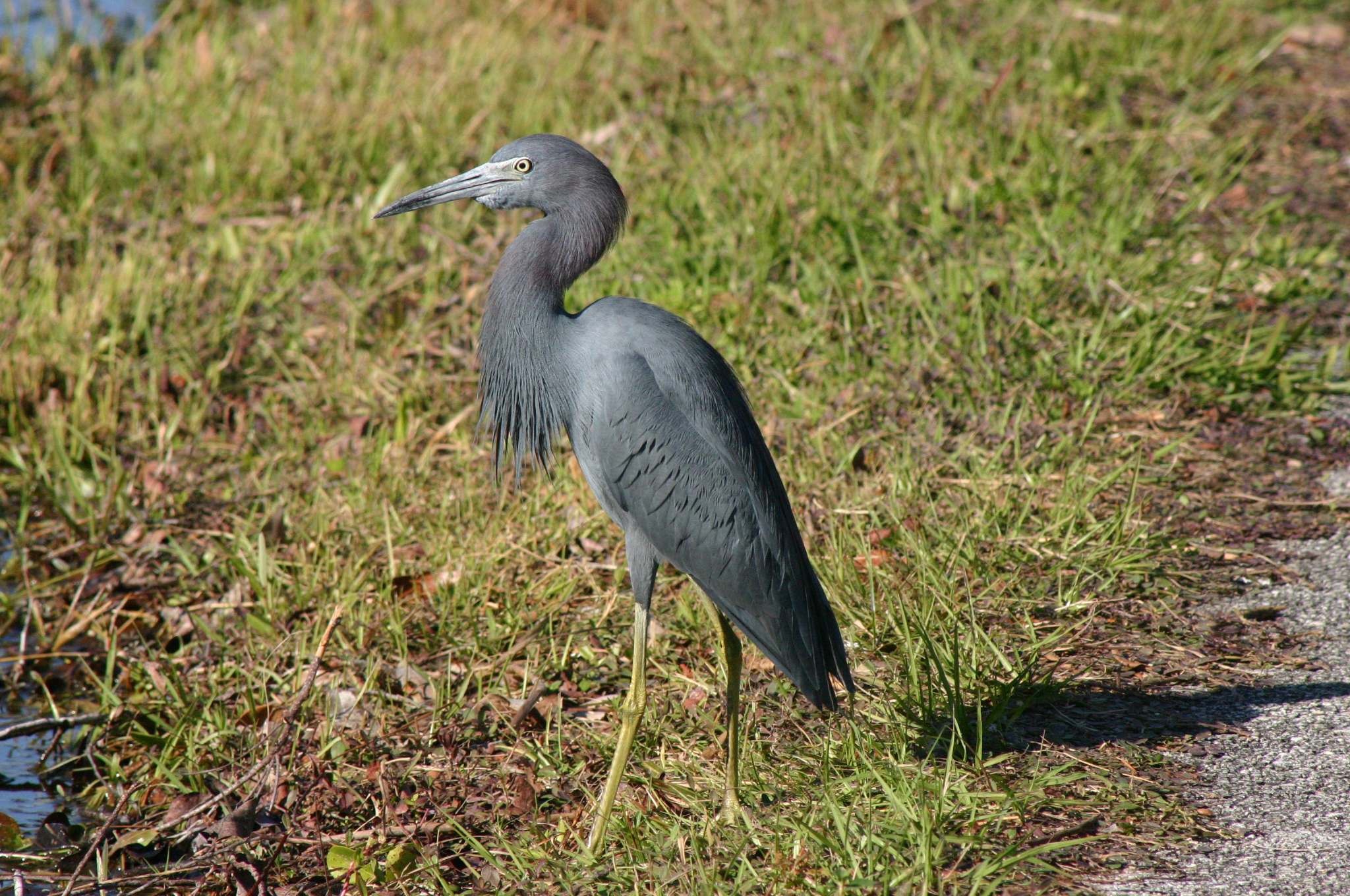 Nonbreeding adult Little Blue Heron Egretta caerulea, Shark Valley, Florida.